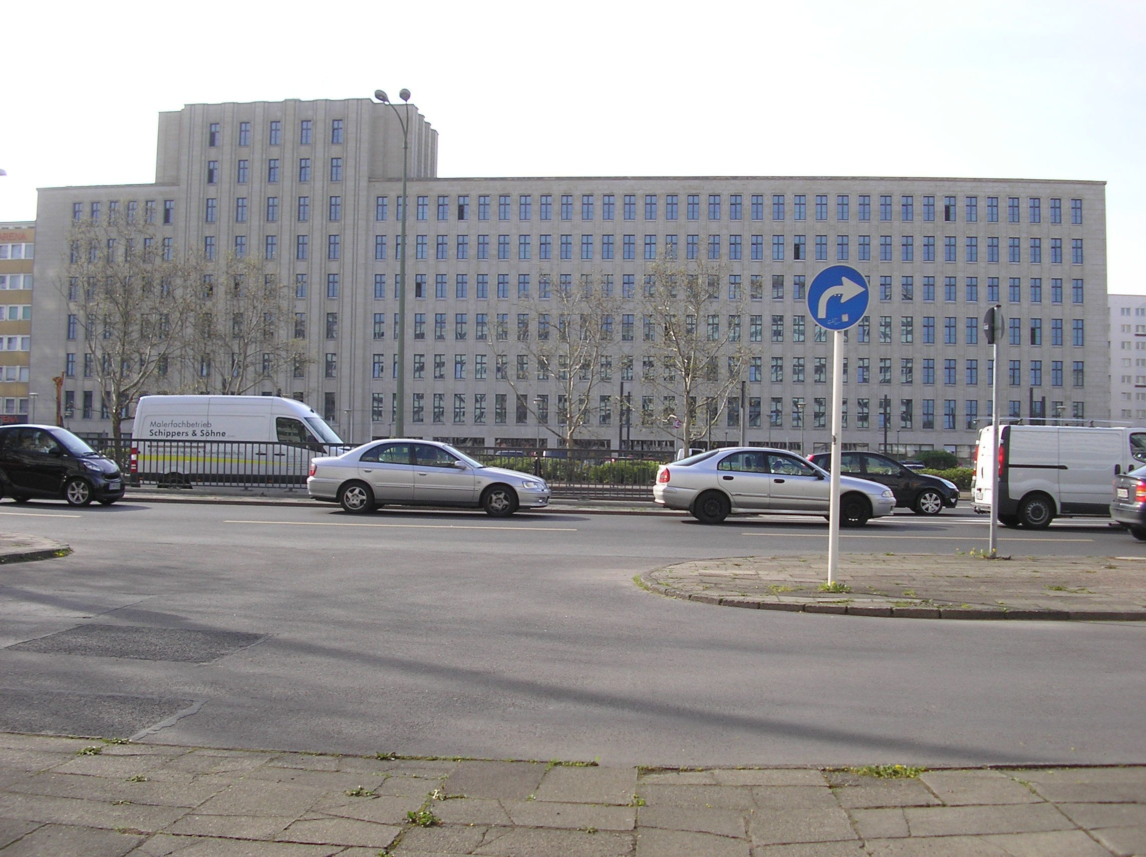 Official Place in Berlin, Germany